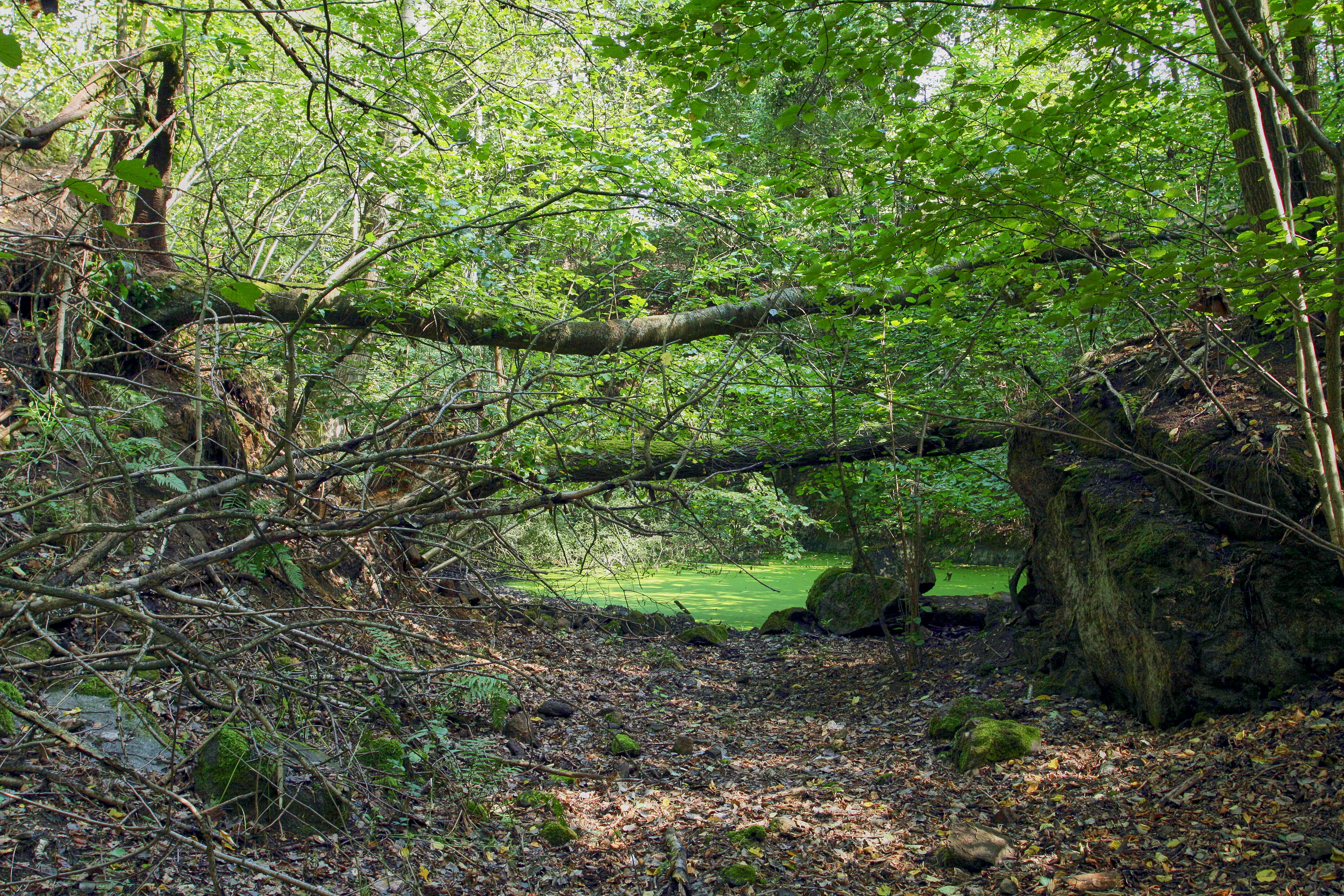 Natural monument Mutěnínský lom near Mutěnín village in Domažlice District, Czech Republic